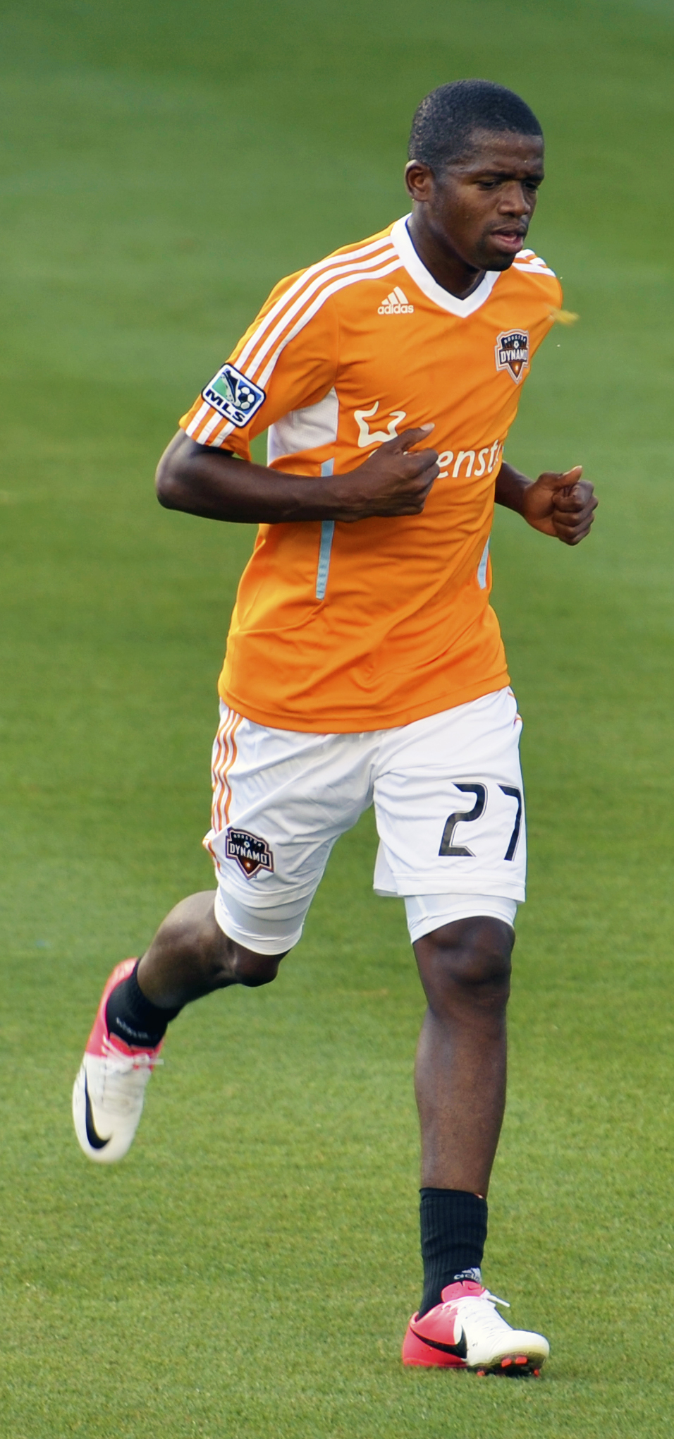 Oscar Boniek Garcia, a midfielder for the Houston Dynamo's versus warming up for a game against the Sporting KC on July 7th, 2012.